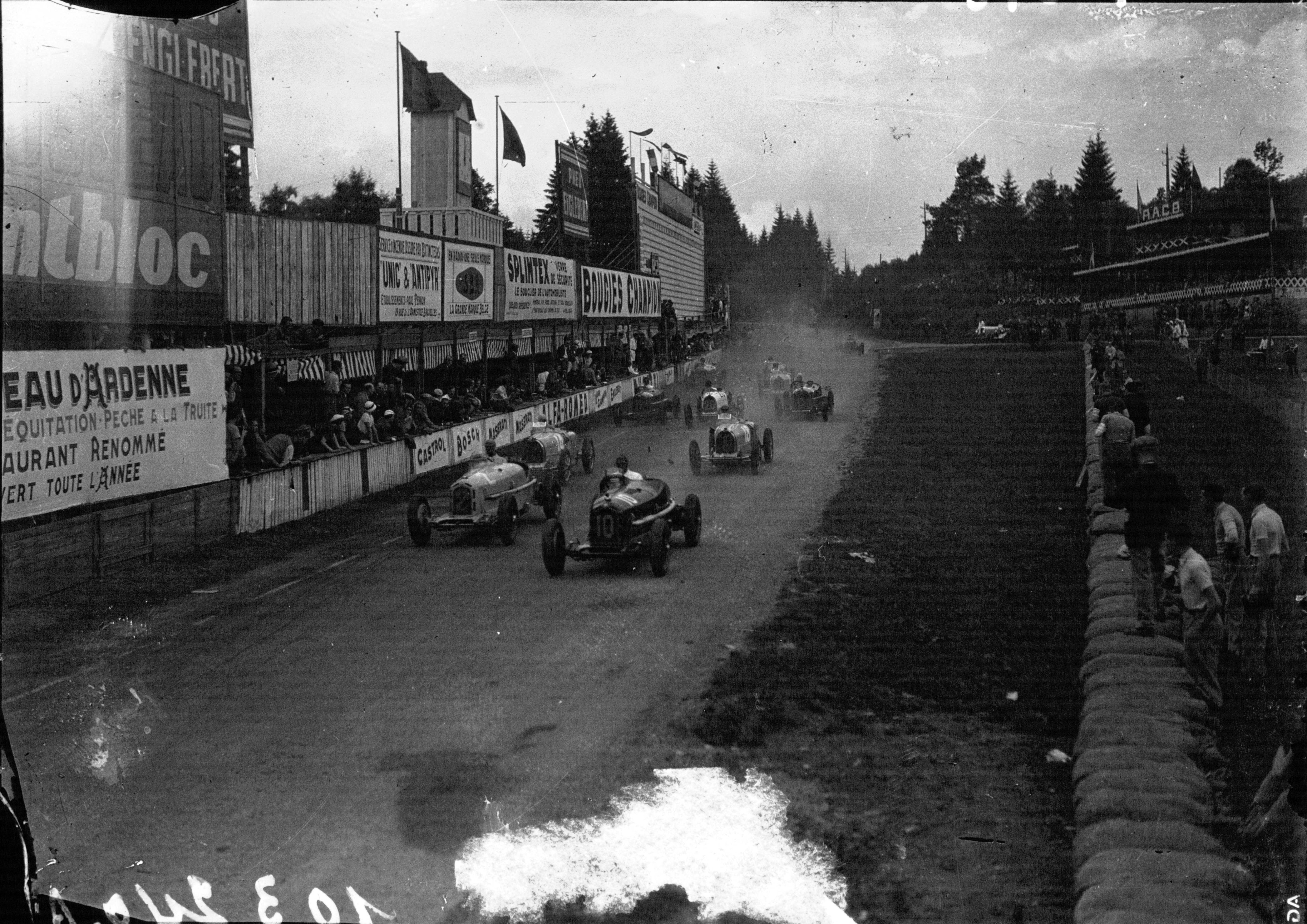 Start of the 1933 Belgian Grand Prix